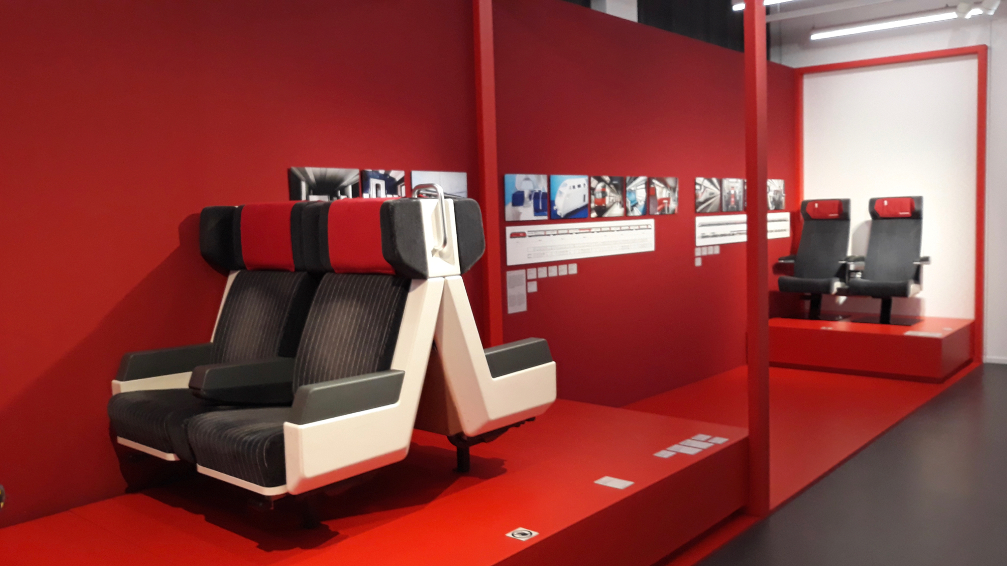 First class seats of a SBB CFF FFS Mk. IV coach and of a SBB CFF FFS RABe 501 on display at the Museum für Gestaltung in Zürich.